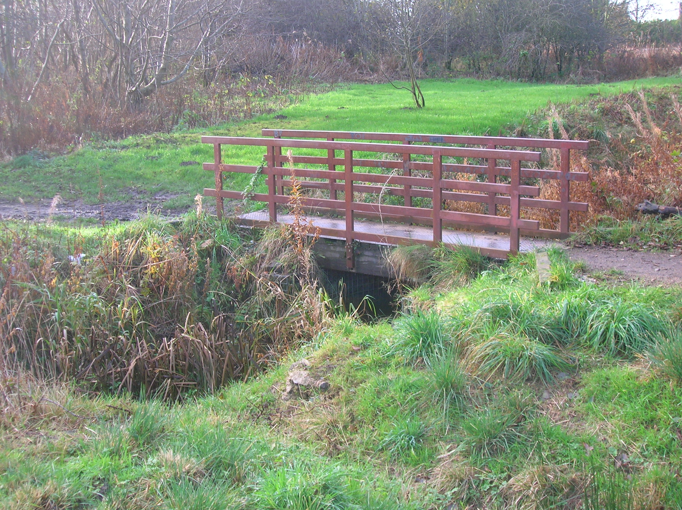 The Drucken Steps across the Redburn, Irvine, North Ayrshire, Scotland.